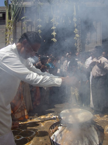 D.M. at the Thai Pongal Festival at his temple in Colombo